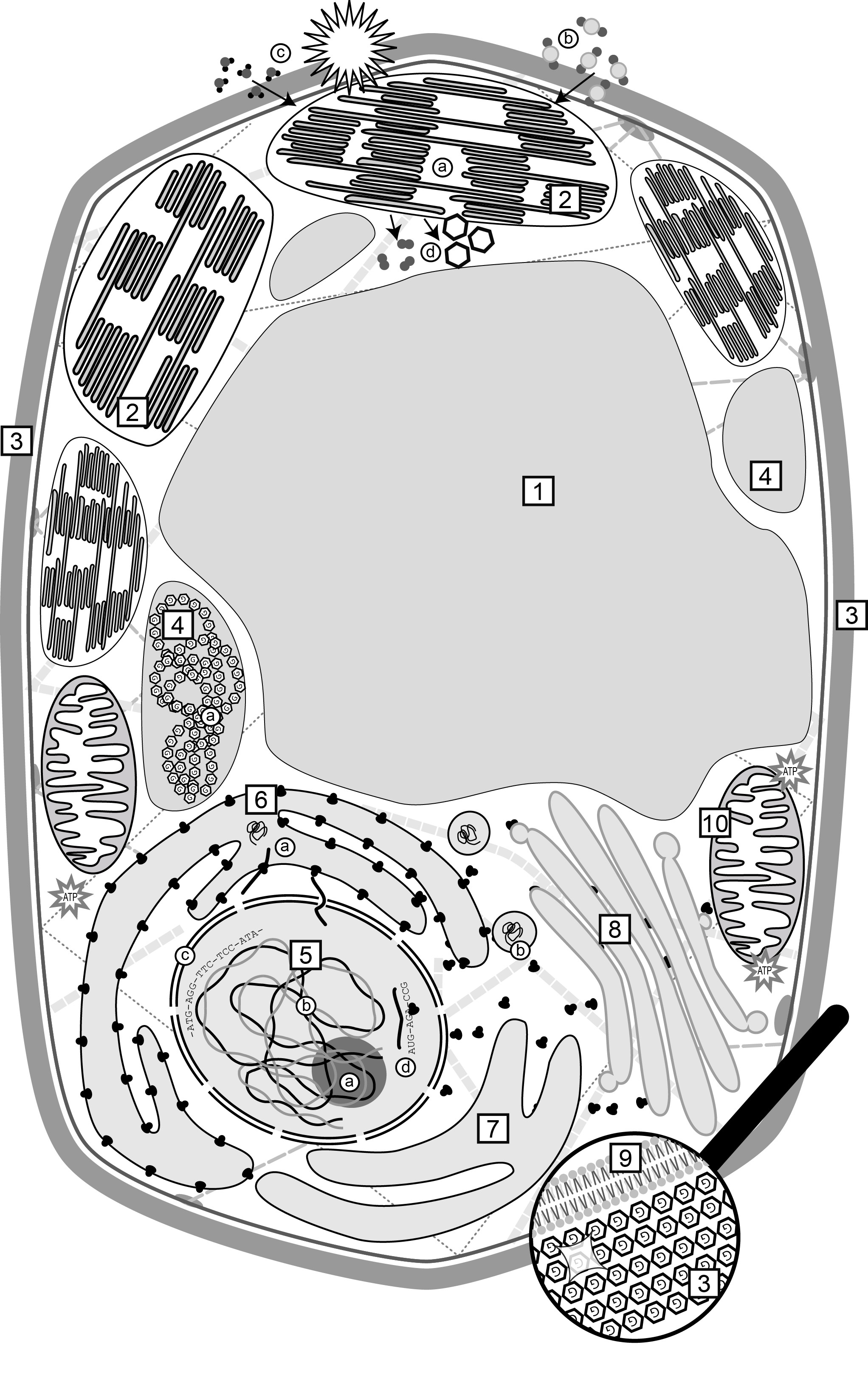 vegetal cell drawing